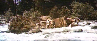 Cropped screenshot of the film How the West Was Won